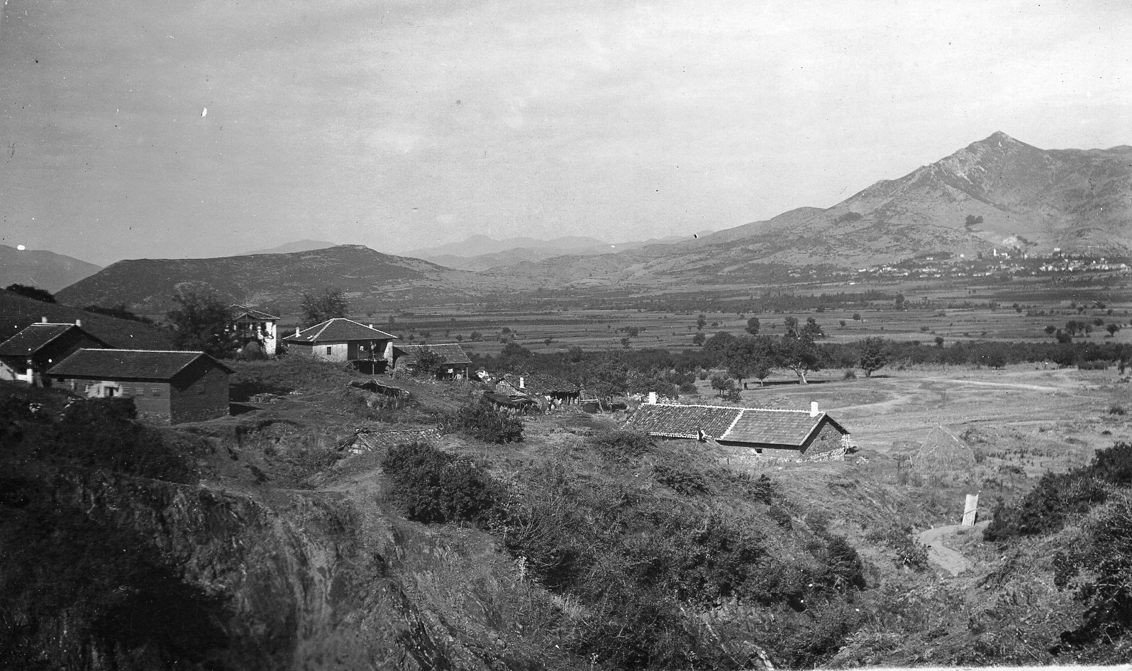 Village Čestevo, 1931 This media file is produced by Wikipedian in Residence in Category:Wikipedian in Residence at DARM in 2016.